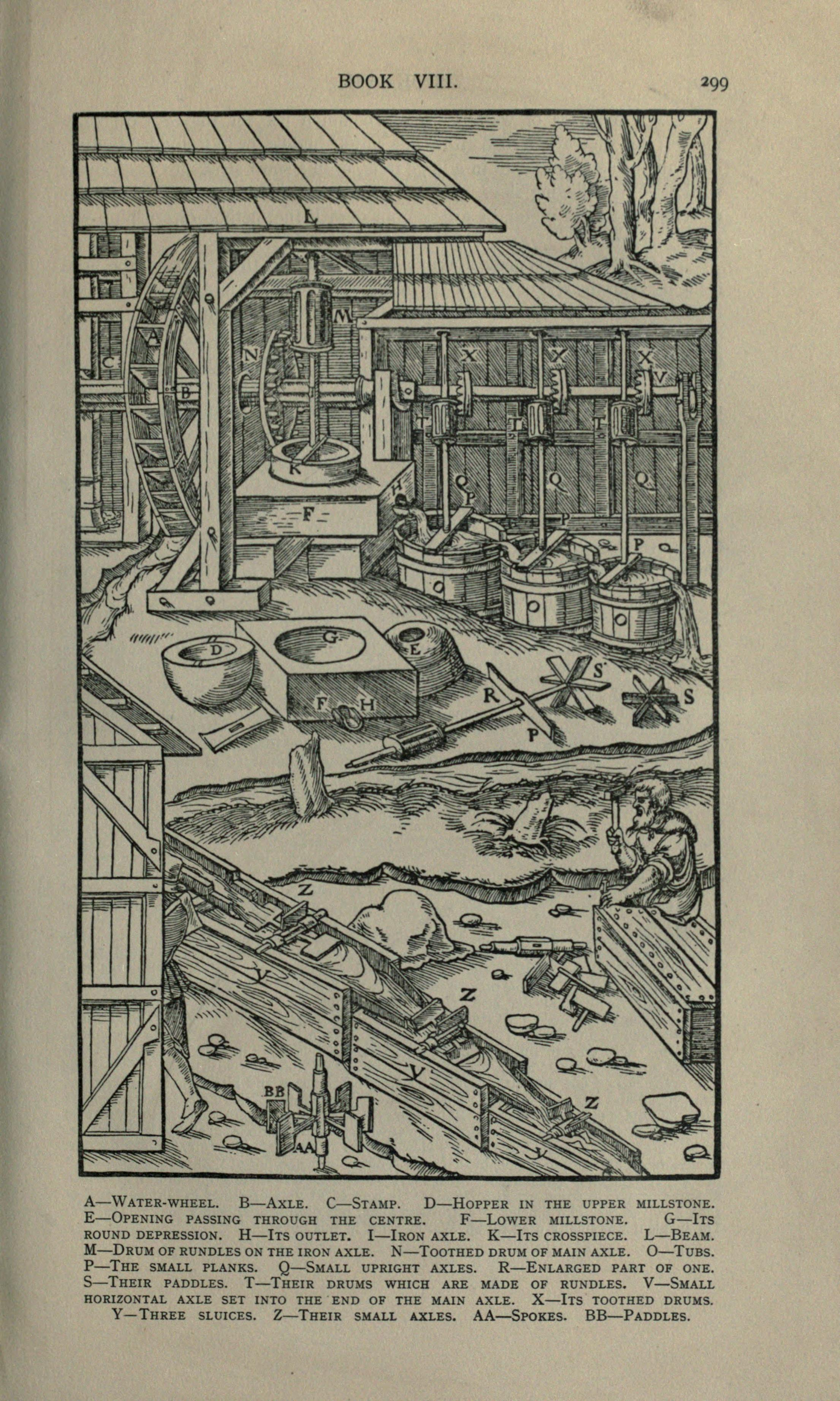 Georgius Agricola De re metallica, tr. from the 1st Latin ed. of 1556, with biographical introduction, annotations and appendices upon the development of mining methods, metallurgical processes, geology, mineralogy & mining law, from the earliest times to the 16th century